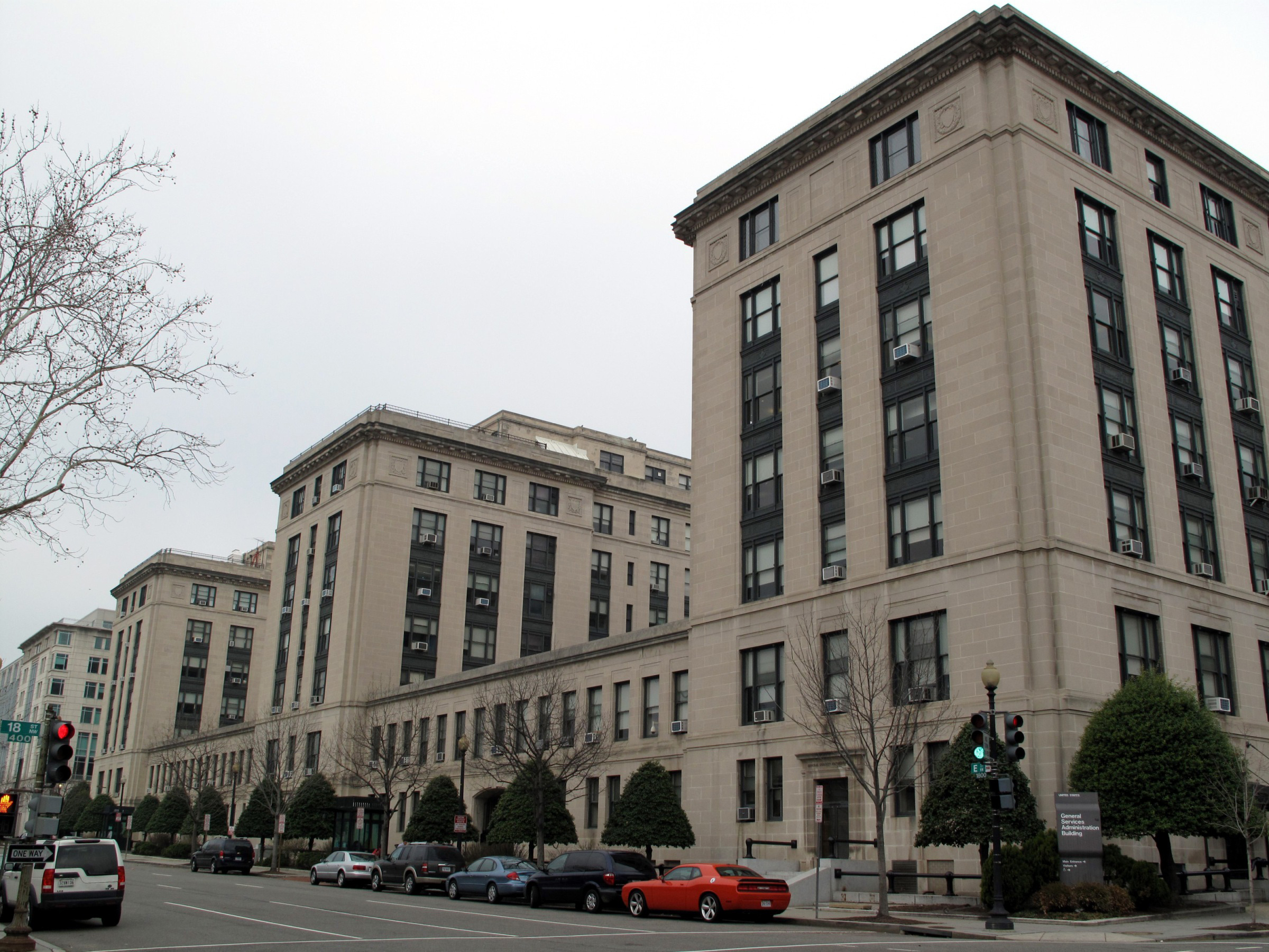 U.S. General Services Administration Building-E Street facade, March 2009